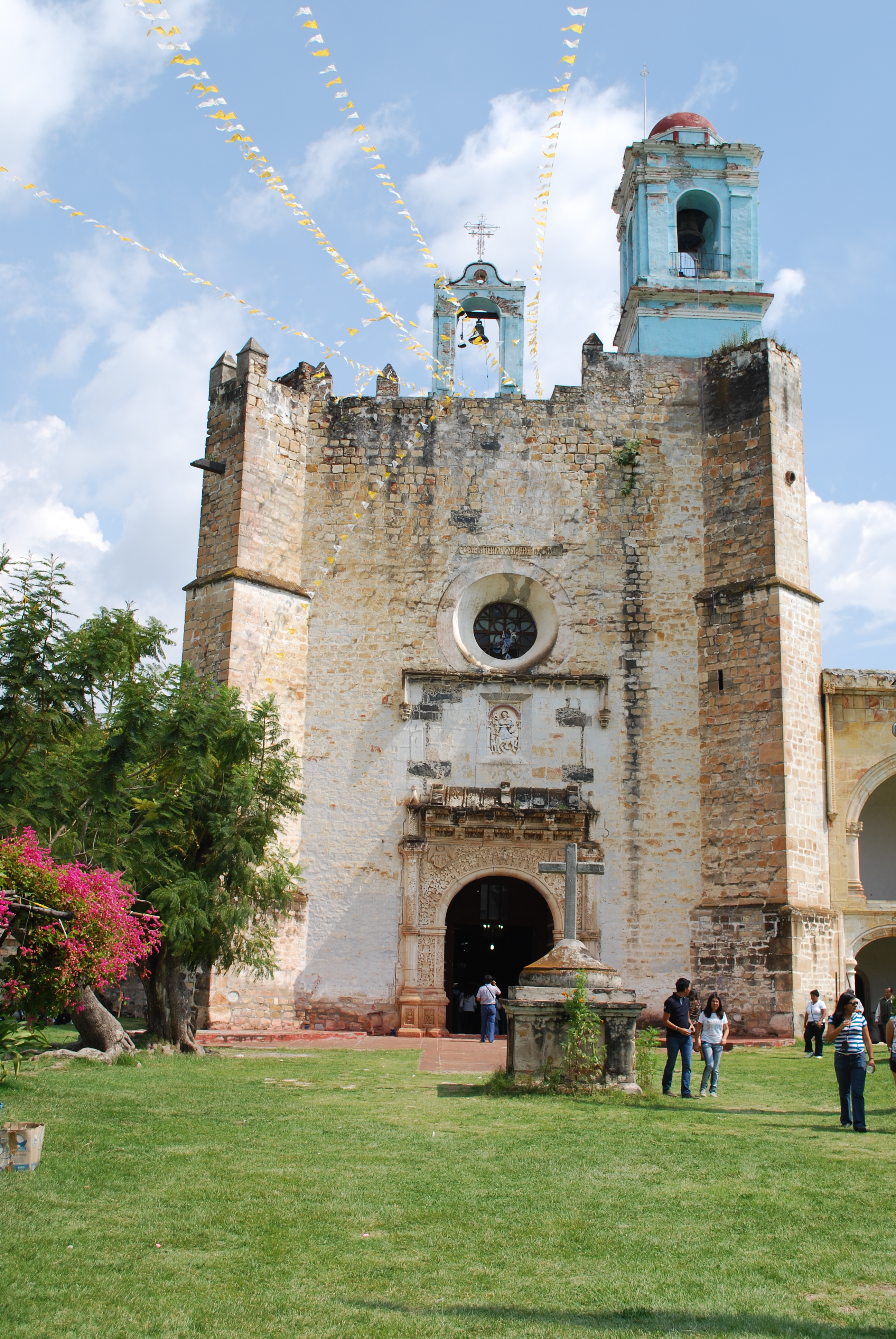 View of the church of the former monastery of San Martin Caballero in Huaquechula, Puebla